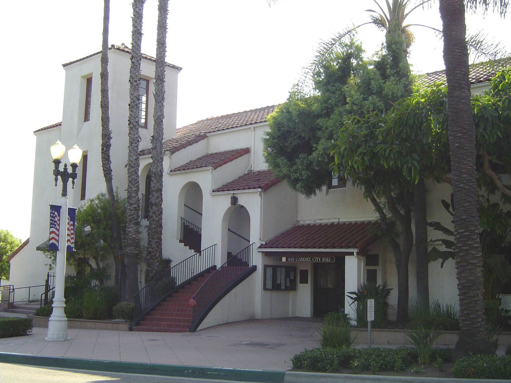 Photographed and uploaded by User:Geographer San Gabriel City Hall, on August 7, 2005.